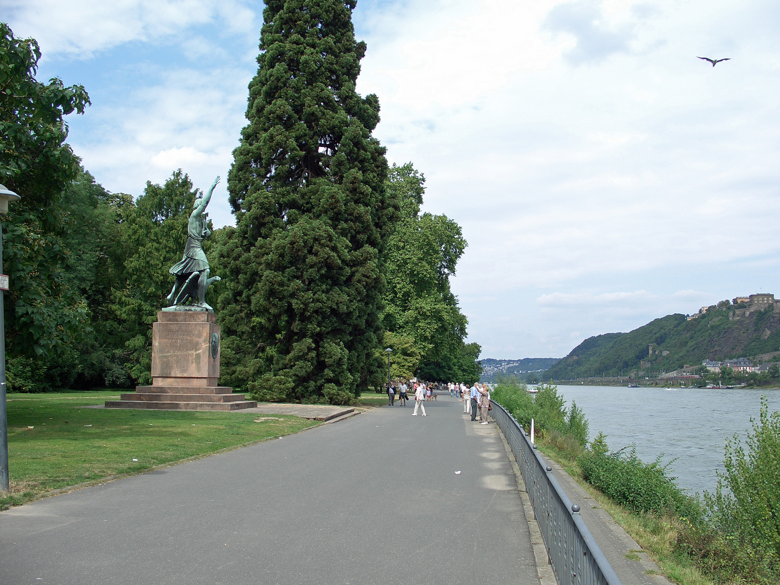 Rhine park in Koblenz